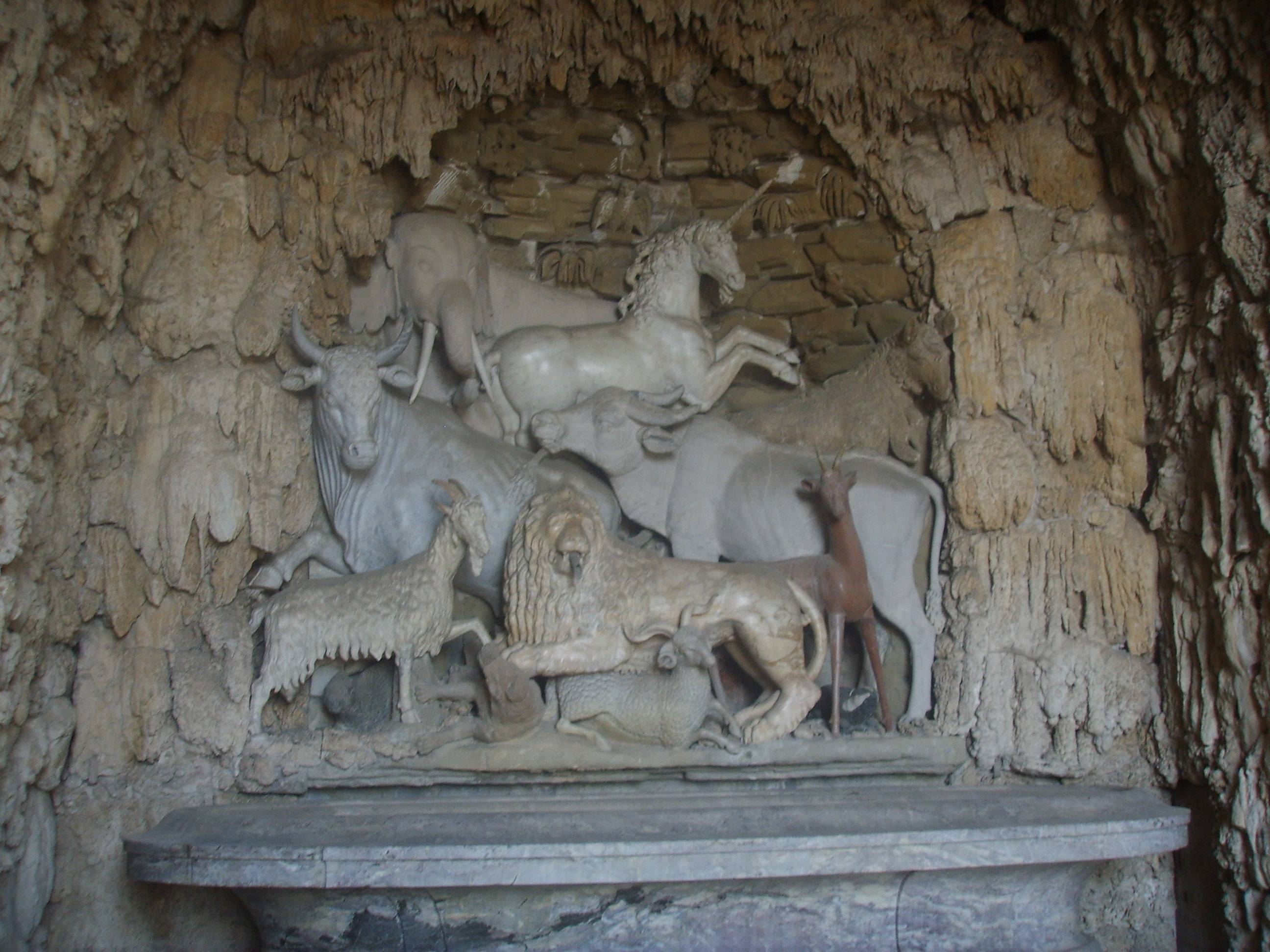 The Grotto of animals by Giambologna in the Villa Medici of Castello, Florence, Italy.